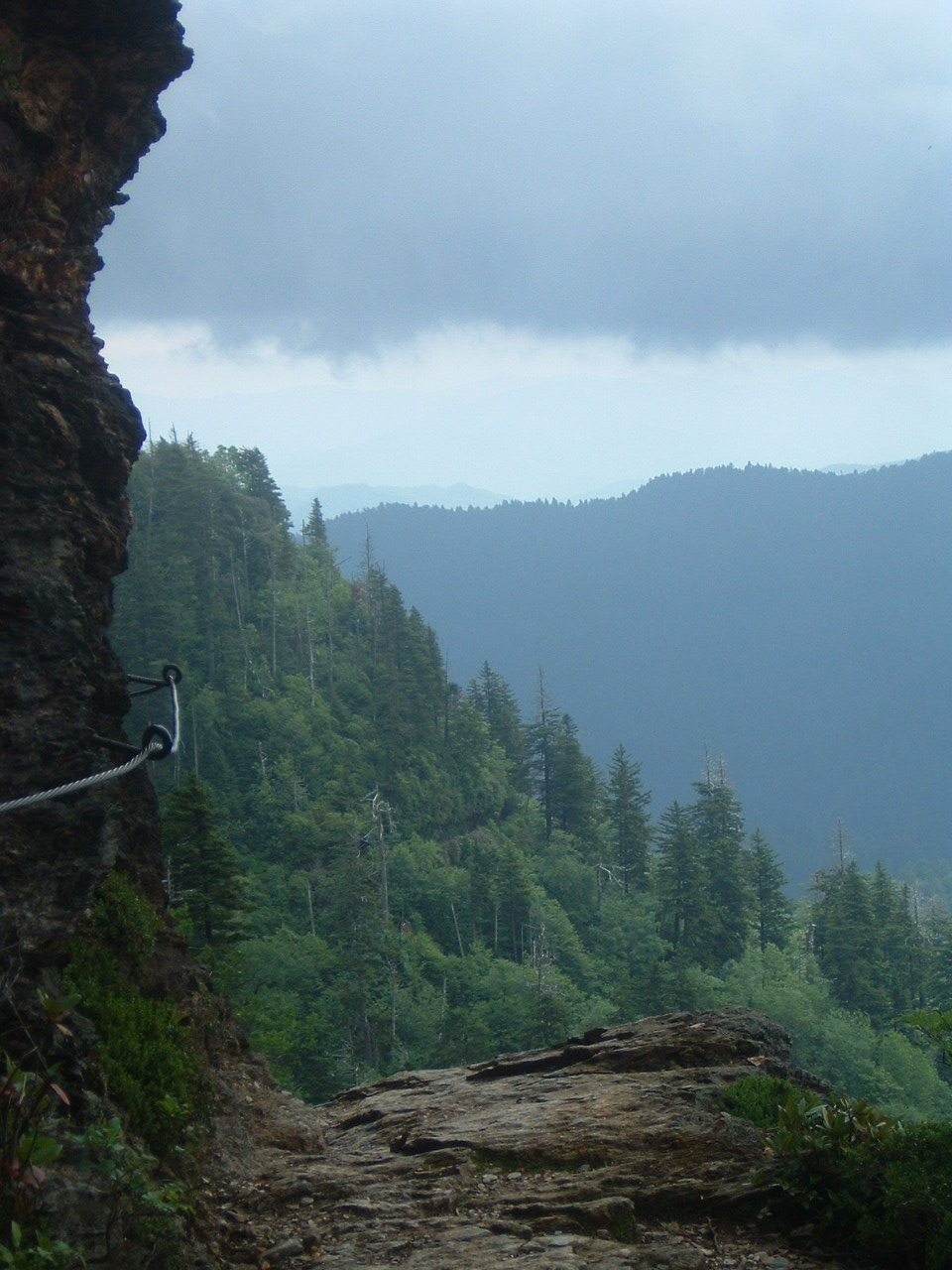 The Alum Cave Bluffs Trail is a 5.1-mile (8.2 km) footpath that gradually ascends approximately 2,600 feet (790 m) to the summit of Mount LeConte in the Great Smoky Mountains National Park, near Gatlinburg, Tennessee.